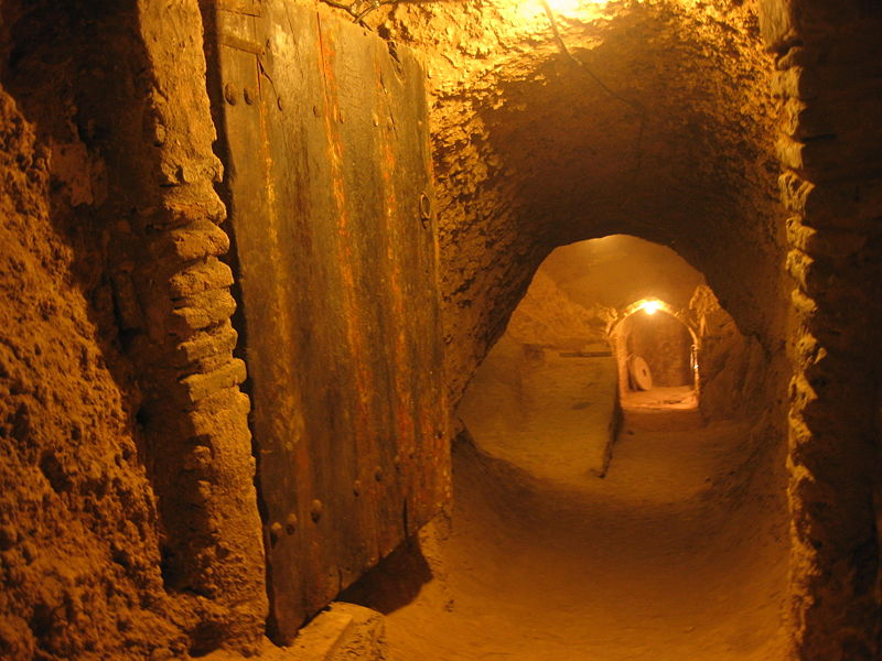 Rigareh watermill